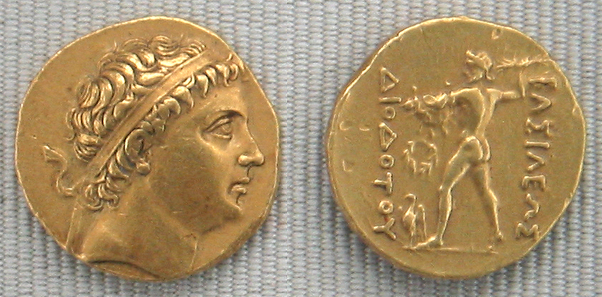 Gold coin of Diodotus I king of Bactria, c. 245 BC. The Greek inscription reads: "ΒΑΣΙΛΕΩΣ ΔΙΟΔΟΤΟΥ" – "(of) King Diodotus". Cabinet des Medailles, Paris. Personal photograph 2006.